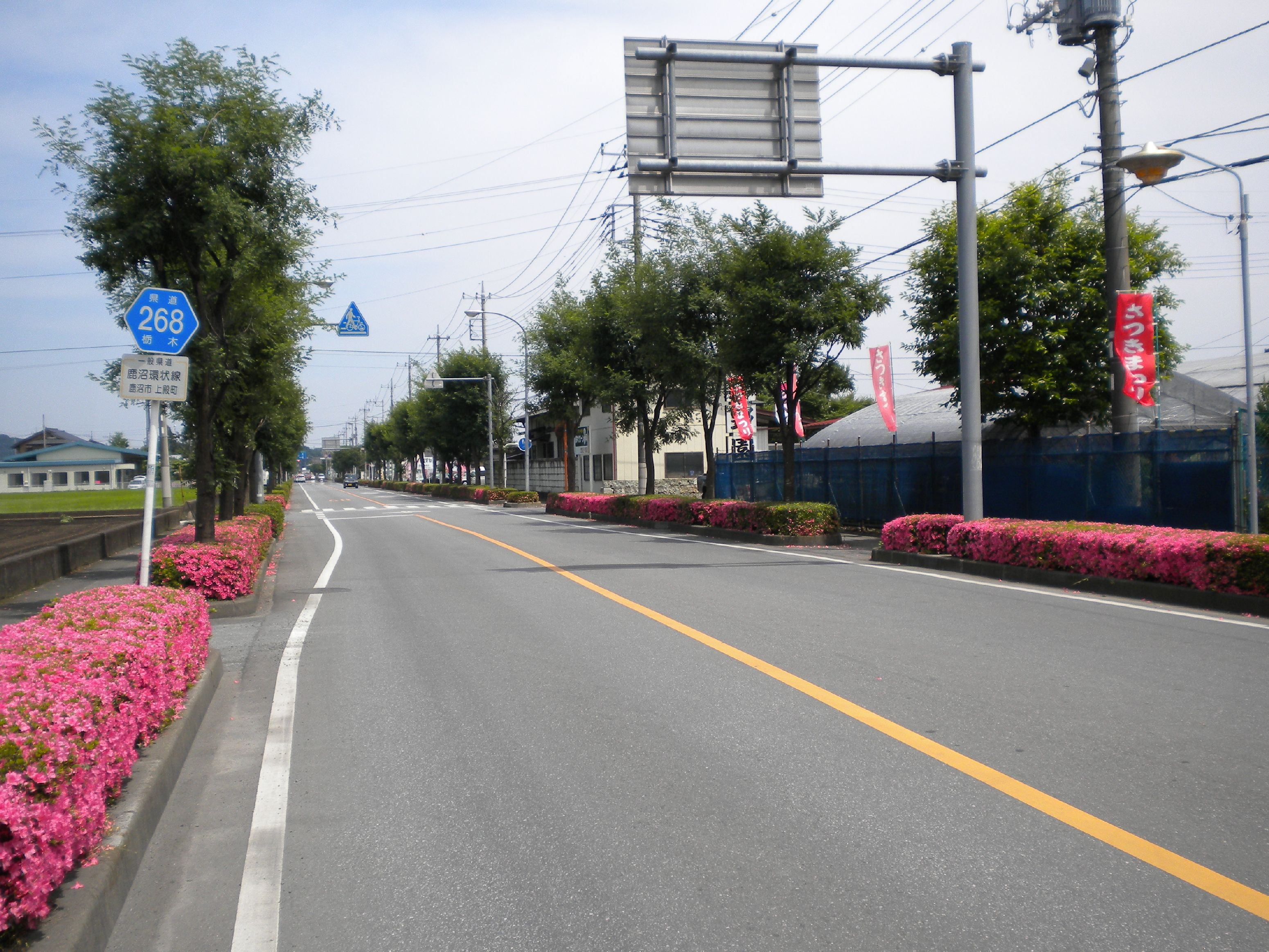 The Tochigi Prefectural Road Route 268 in Kamidonomachi, Kanuma City